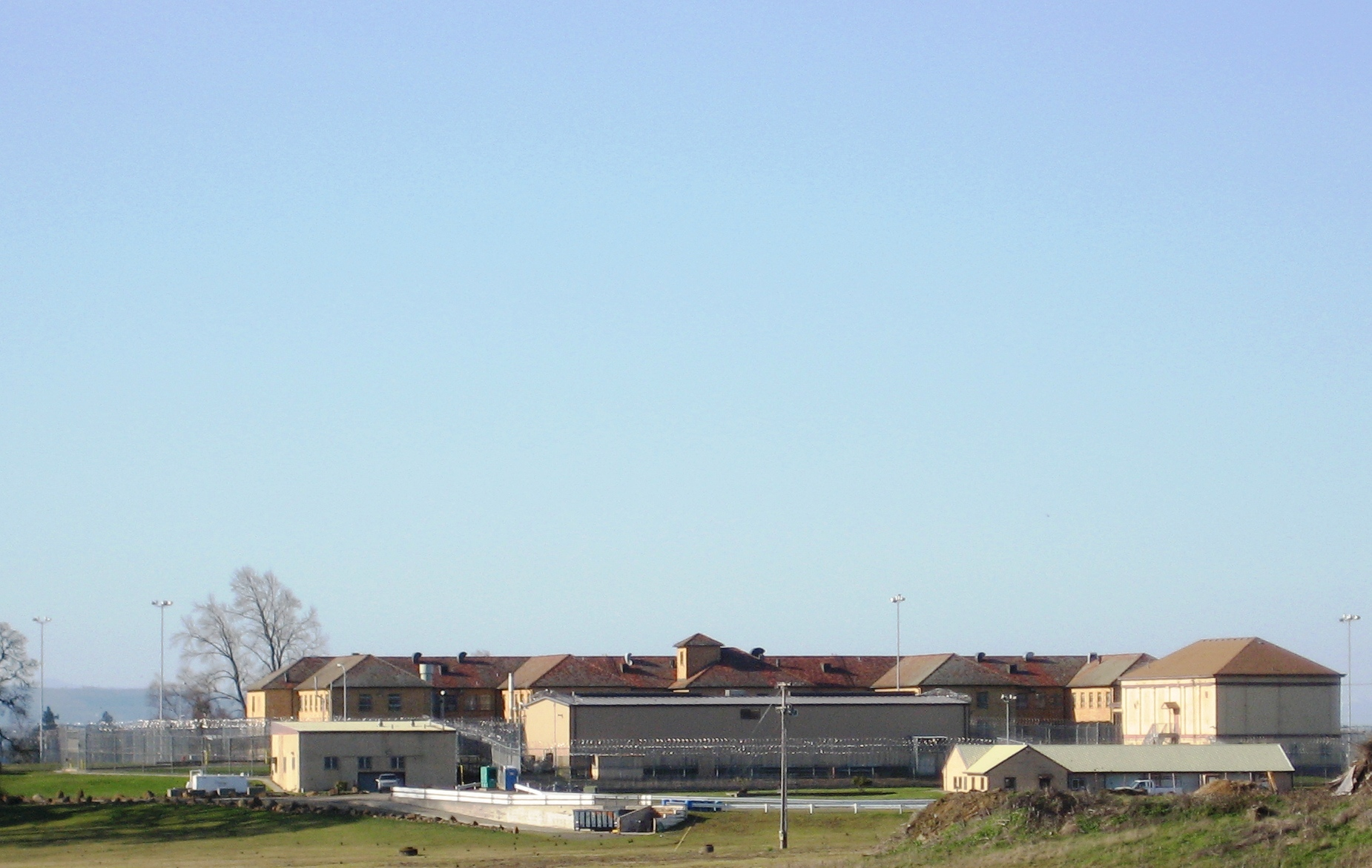 Santiam Correctional Institution near Salem, Oregon, USA.